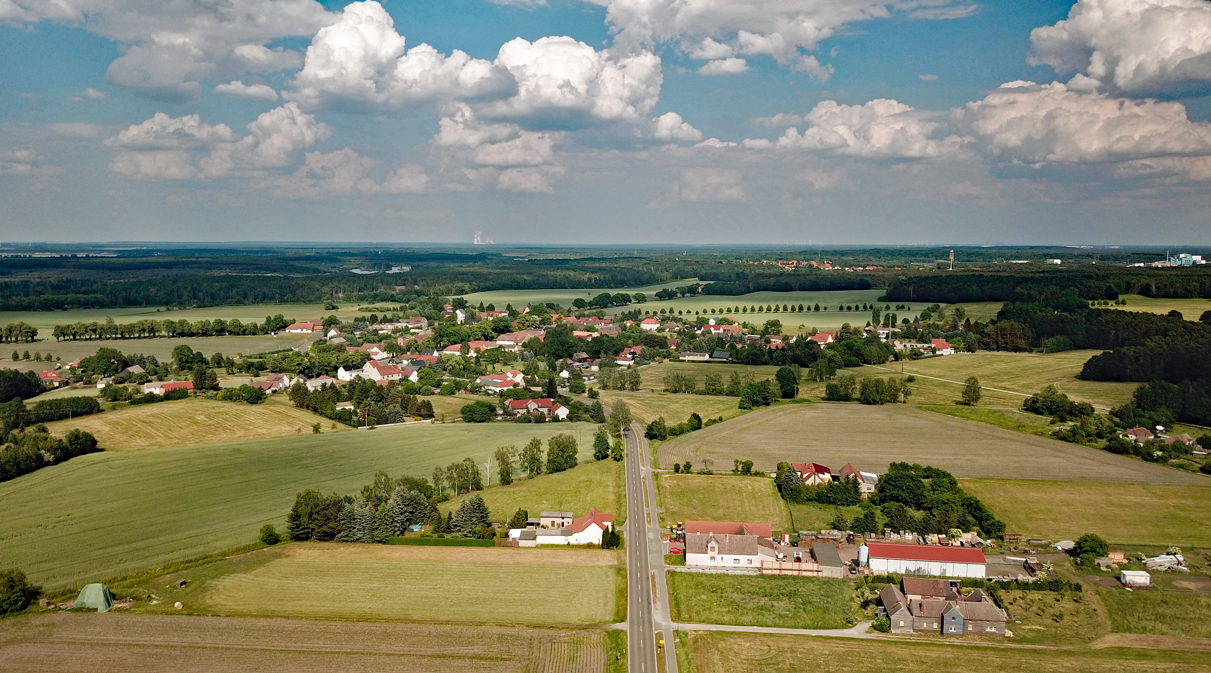 Lauta Dorf (Saxony, Germany) Hornjoserbsce: Powětrowy wobraz Starych Łutow